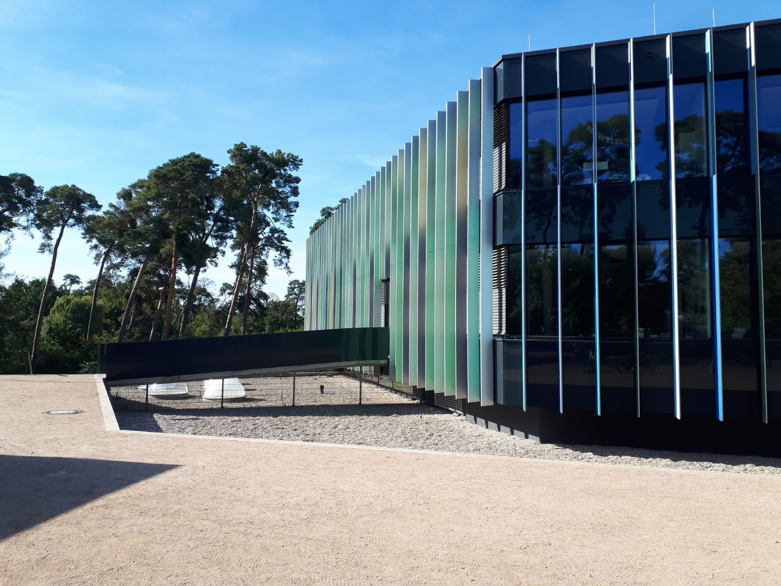 SISS during daytime